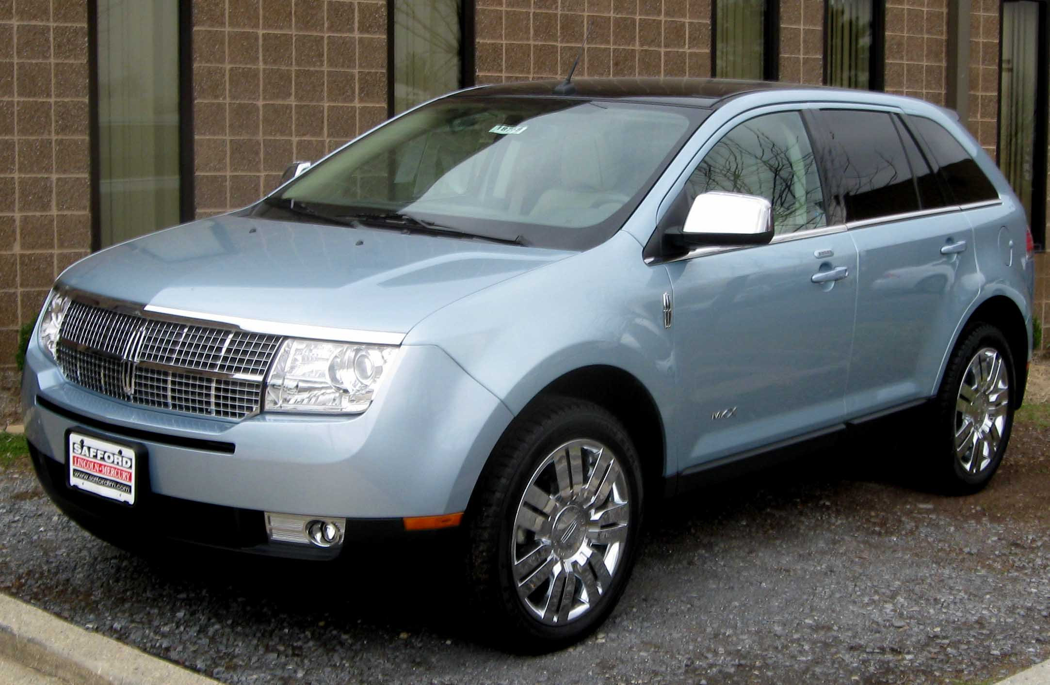 2009 Lincoln MKX photographed in Silver Spring, Maryland, USA.